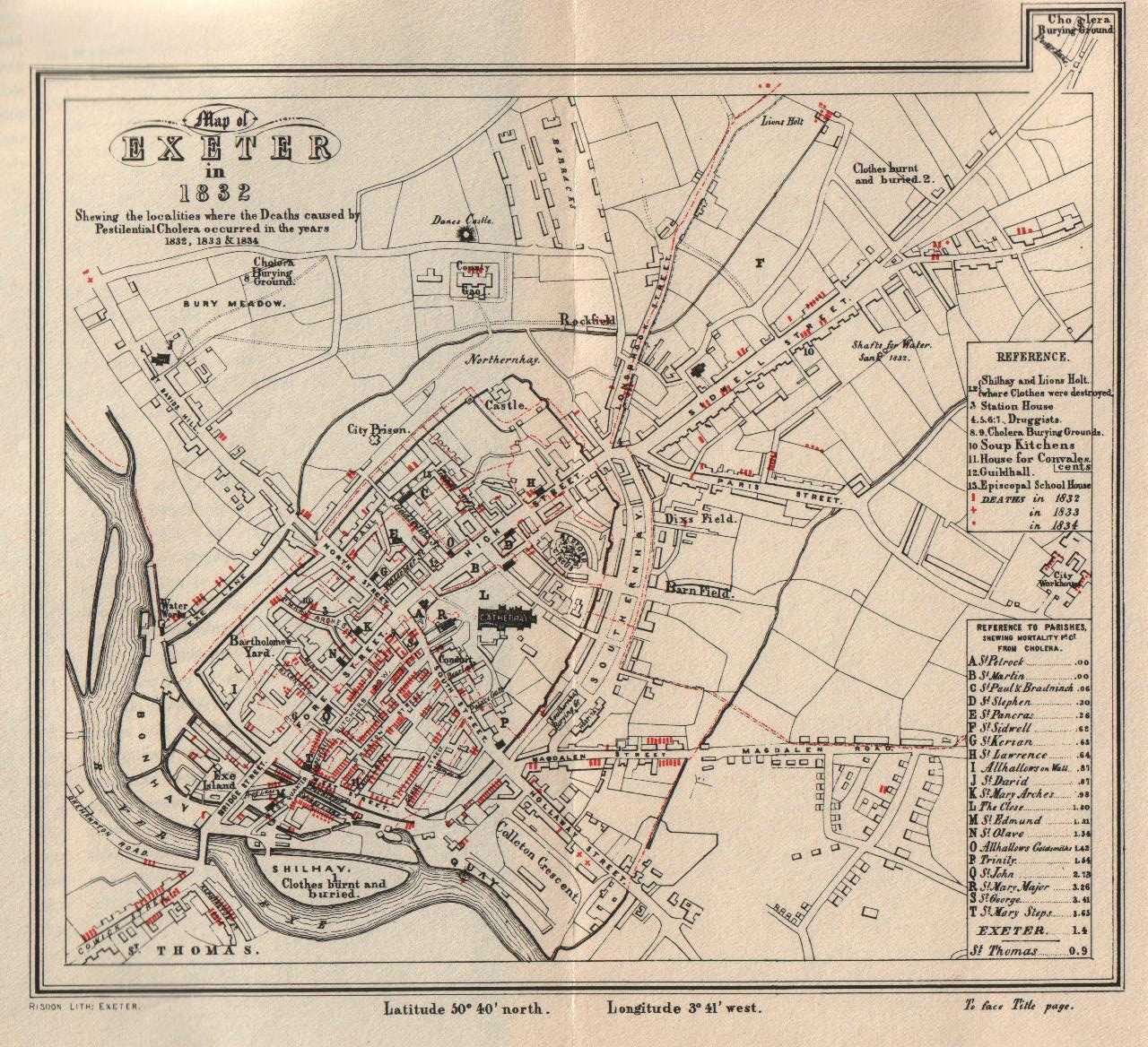 Frontispiece to Thomas Shapter's "The History of the Cholera in Exeter in 1832". A Map of Exeter in 1832 "shewing the localities where the deaths caused by Pestilential Cholera occurred in the years 1832, 1833 and 1834".